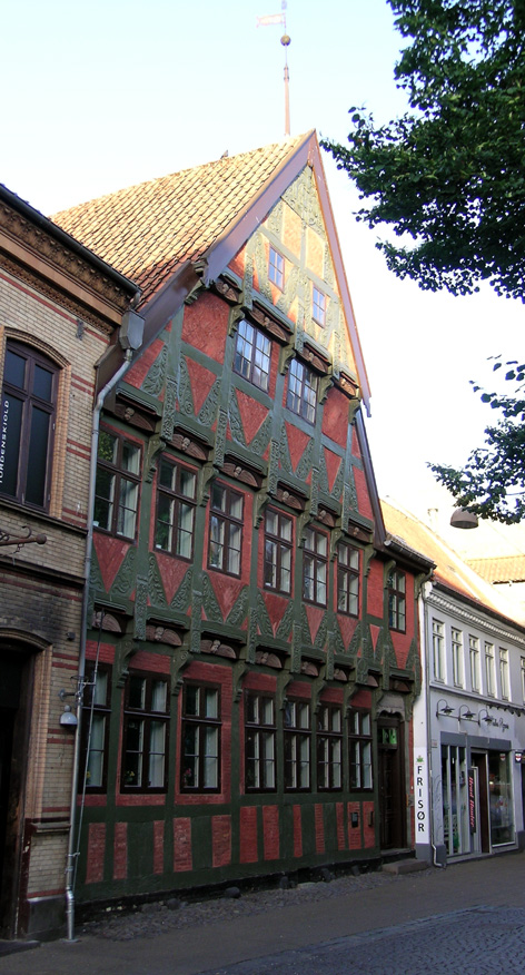 Borchs gård, Kolding, Danmark. Built 1595 as a pharmacy. Named after retailer and stadshauptmand I.S.Borch, who owned the house in the 19th C. One of Denmark's most outstanding examples of a townhouse from the Renaissance. Gable house of German pattern with richly carved ornaments.